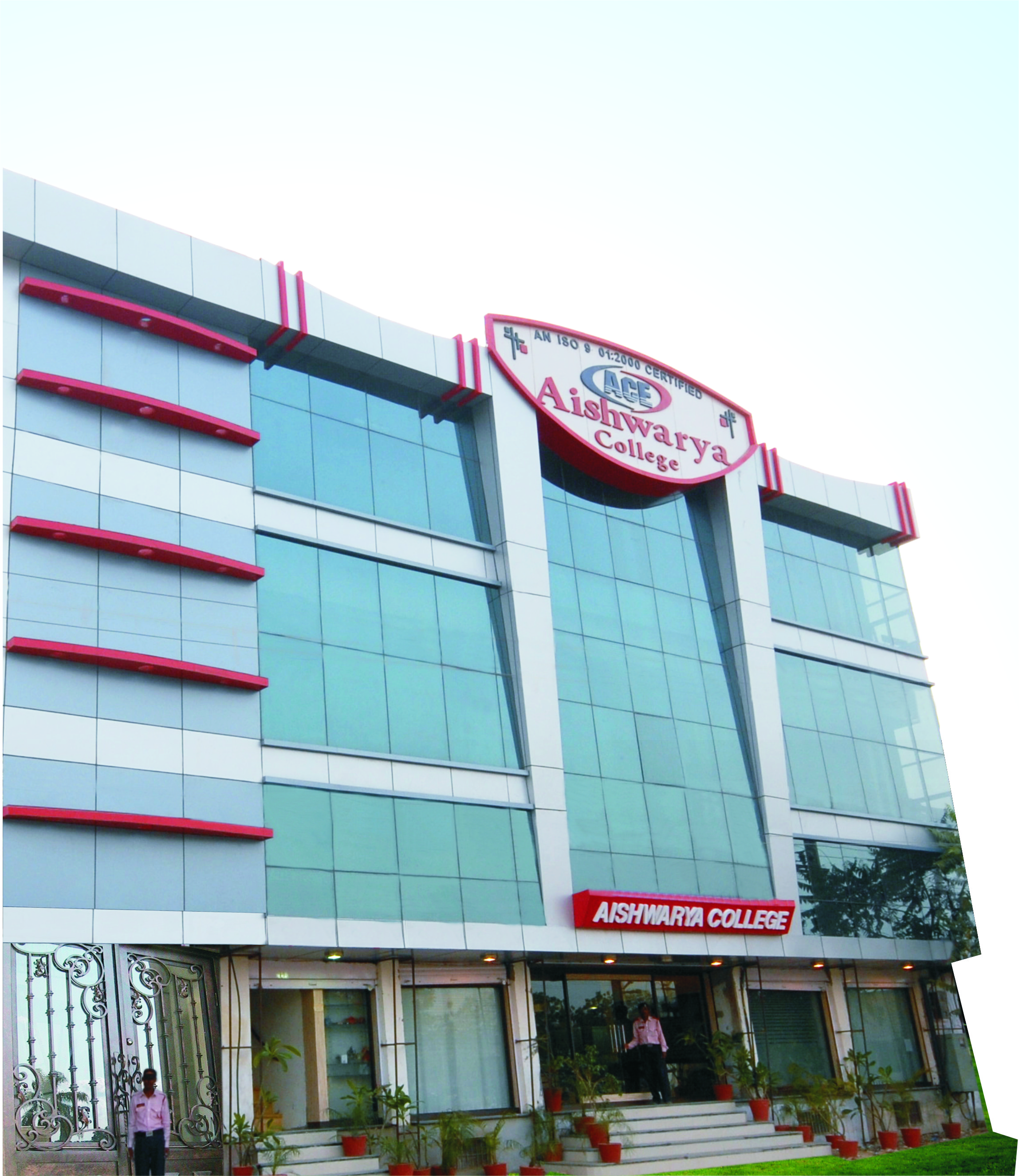 A-9 , I st Extension Kamla Nehru Nagar , Jodhpur 0291-2760175